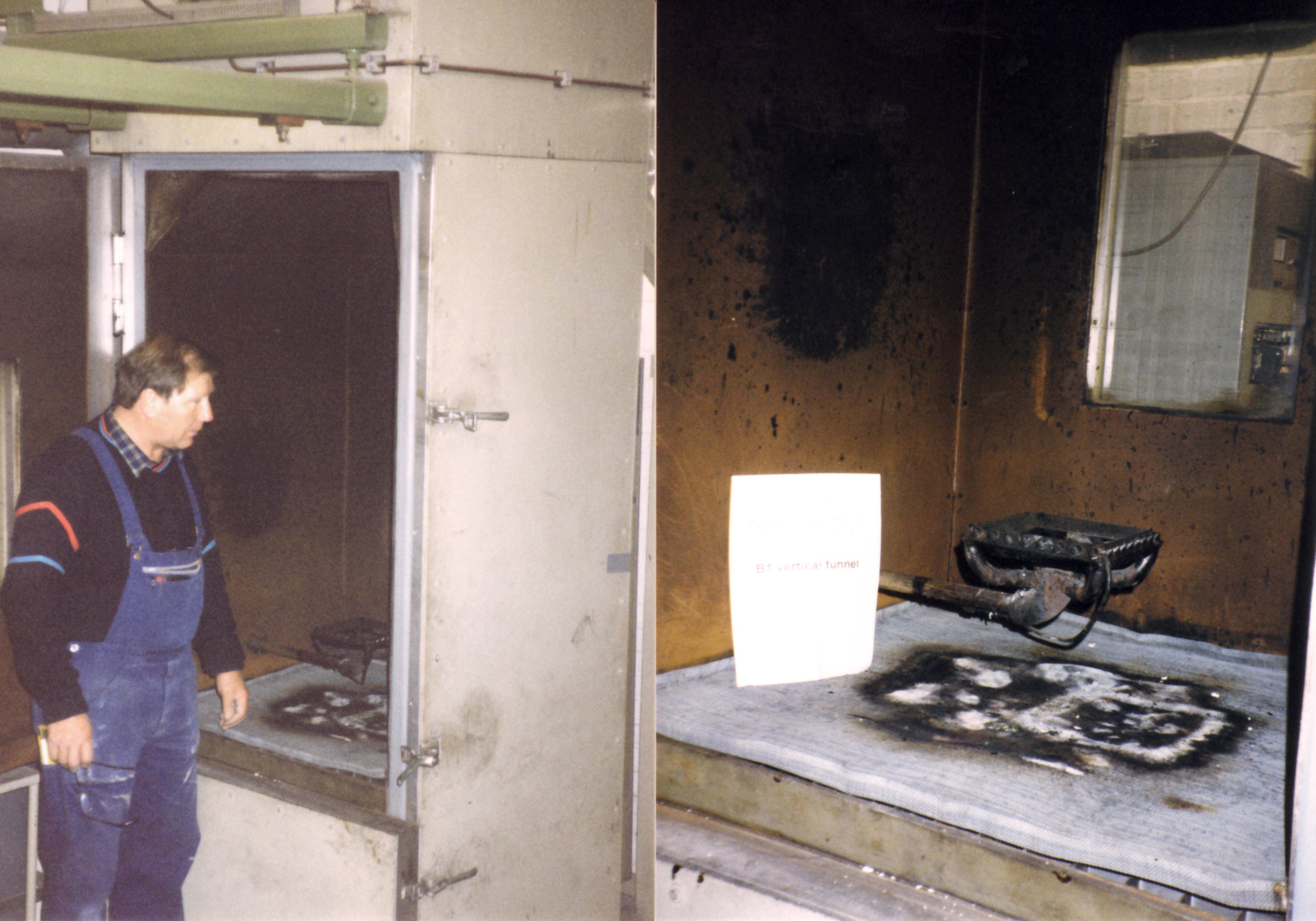 Fire test vertical shaft furnace to test flammability as per DIN 4102 to achieve B1 rating (schwerentflammbar = difficult to ignite) at Technische Universität Braunschweig, iBMB, Germany